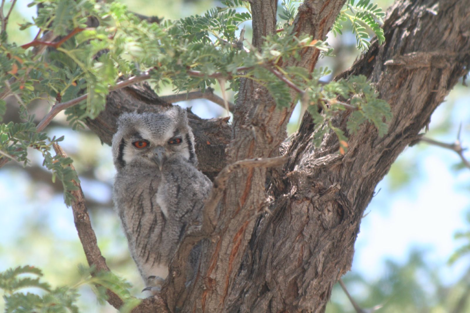 Southern White-faced Owl (Ptilopsis granti, syn. Otus (leucotis) granti) in Namibia.